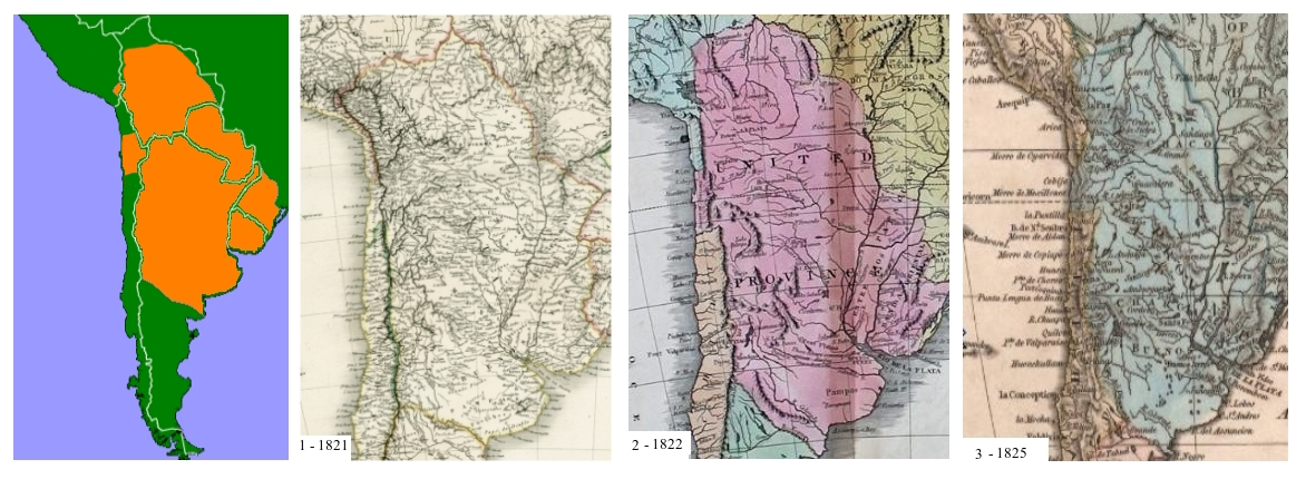 The United Provinces of Rio de la Plata at its greatest extent as portrayed by cartographers of the time. (Now called Argentina)